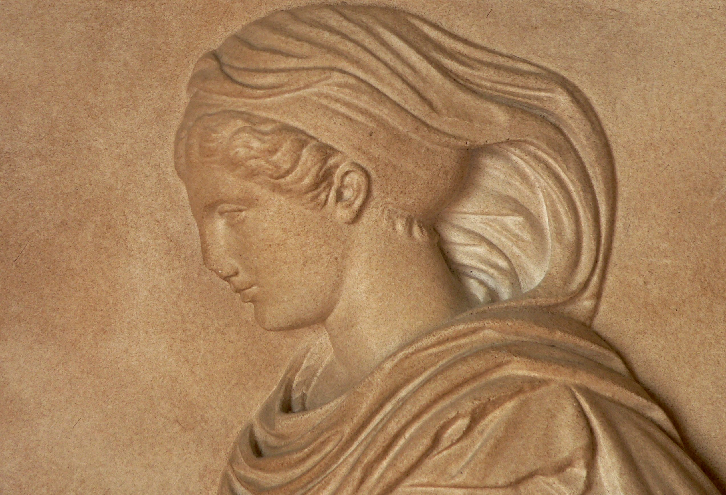 Gradiva (detail), copy of neo-Attic Roman bas-relief, probably after a Greek original from the 4th century B.C., Vatican Museum Chiaramonti, Rome; Cat. No. 1284; see Image:Gradiva-p1030638.jpg for further details.